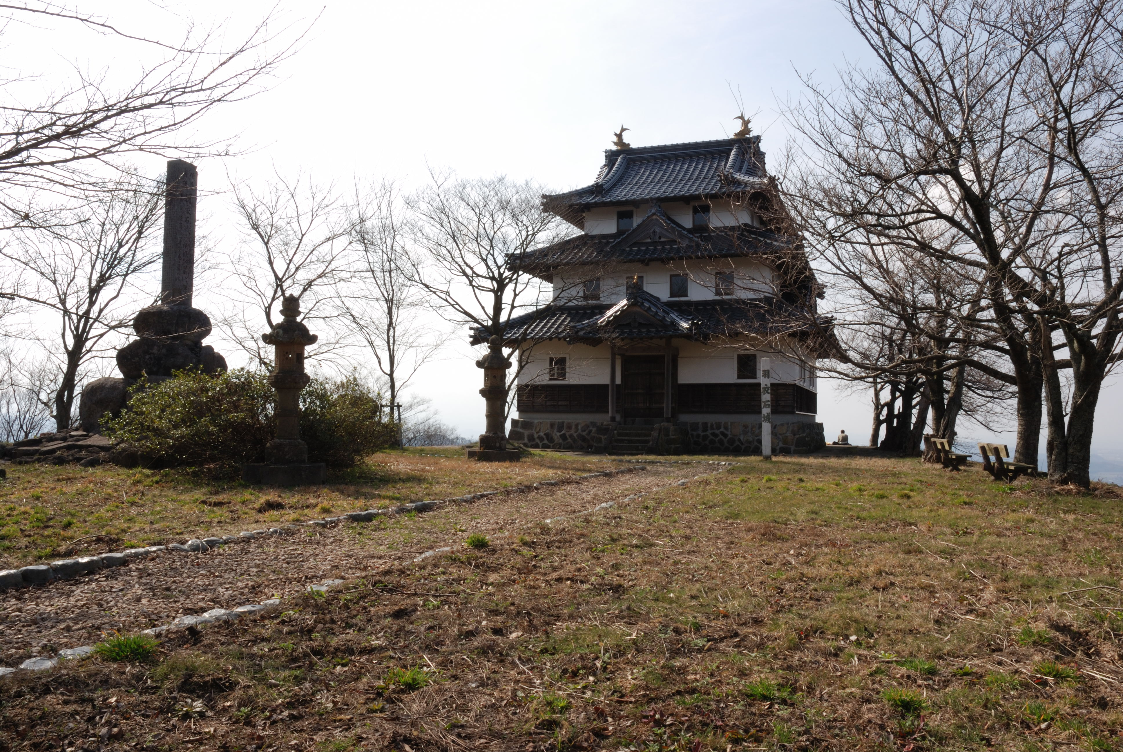 Ueshi castle tenshu